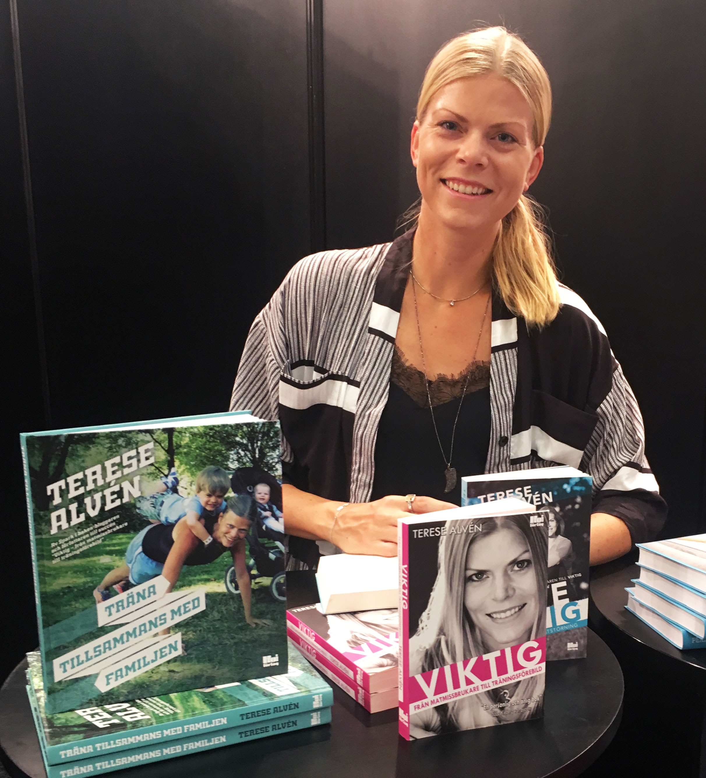 Swedish author and health expert Terese Alvén. Consent/permission sent to OTRS.